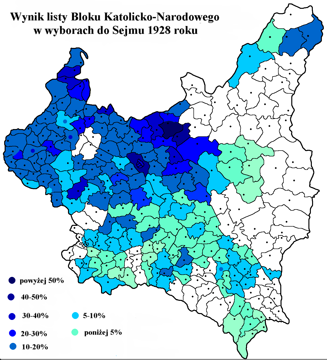 Catholic-National Block results in the Polish legislative election, 1928